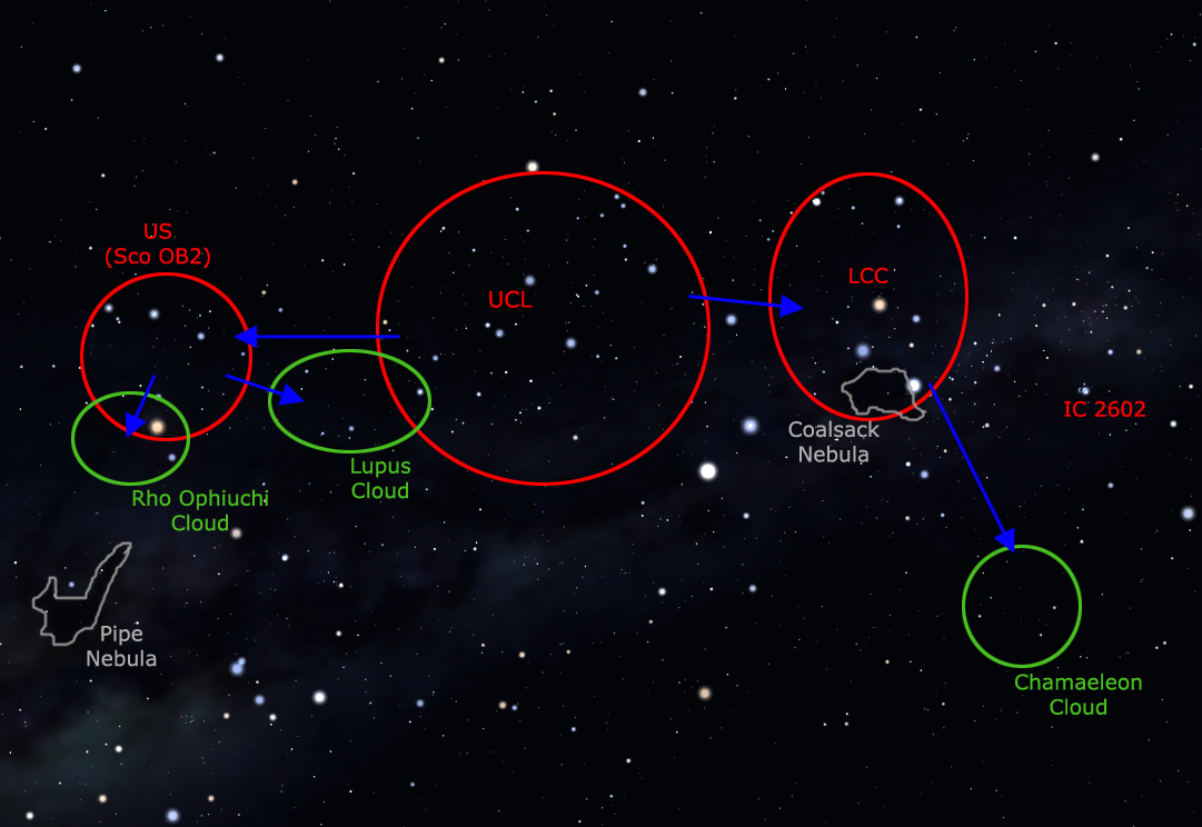 Dynamisc of star formation in the Scorpius-Centaurus Association